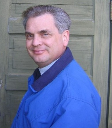 Publicity photo taken by Renee Valois